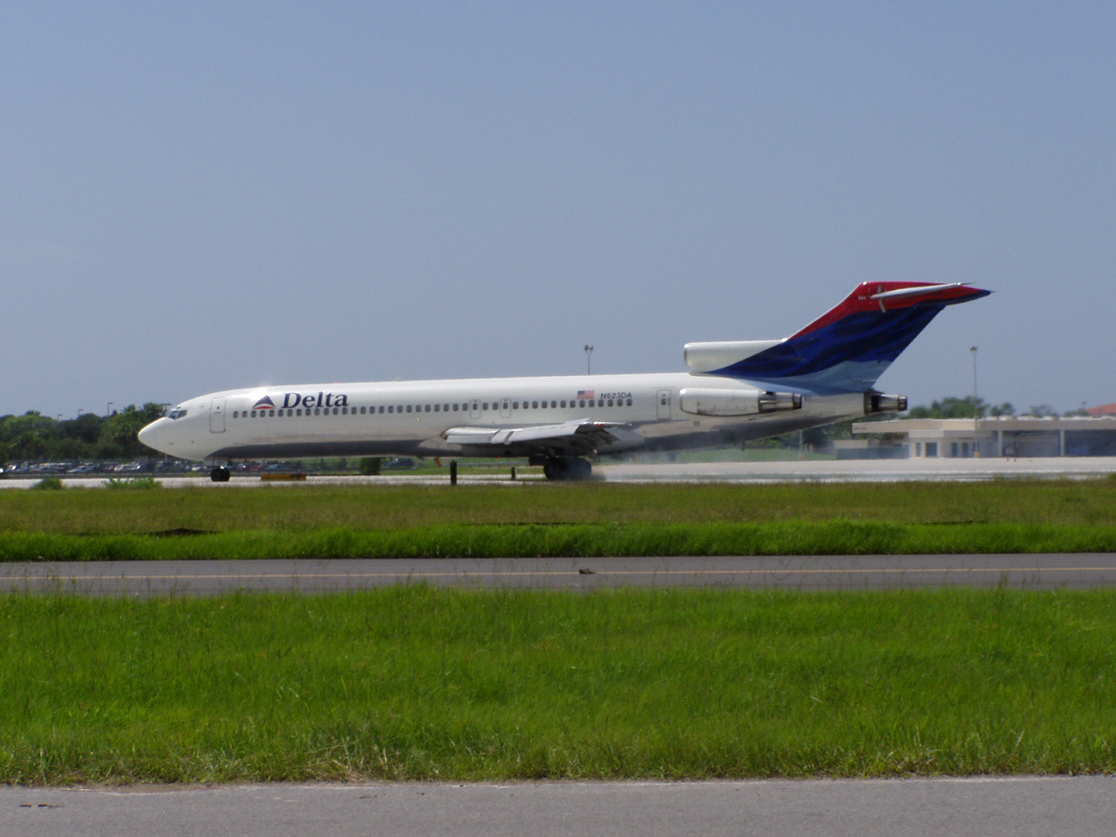 Delta Air Lines Boeing 727-200 at Sarasota-Bradenton International Airport, taken by me and released into the public domain.